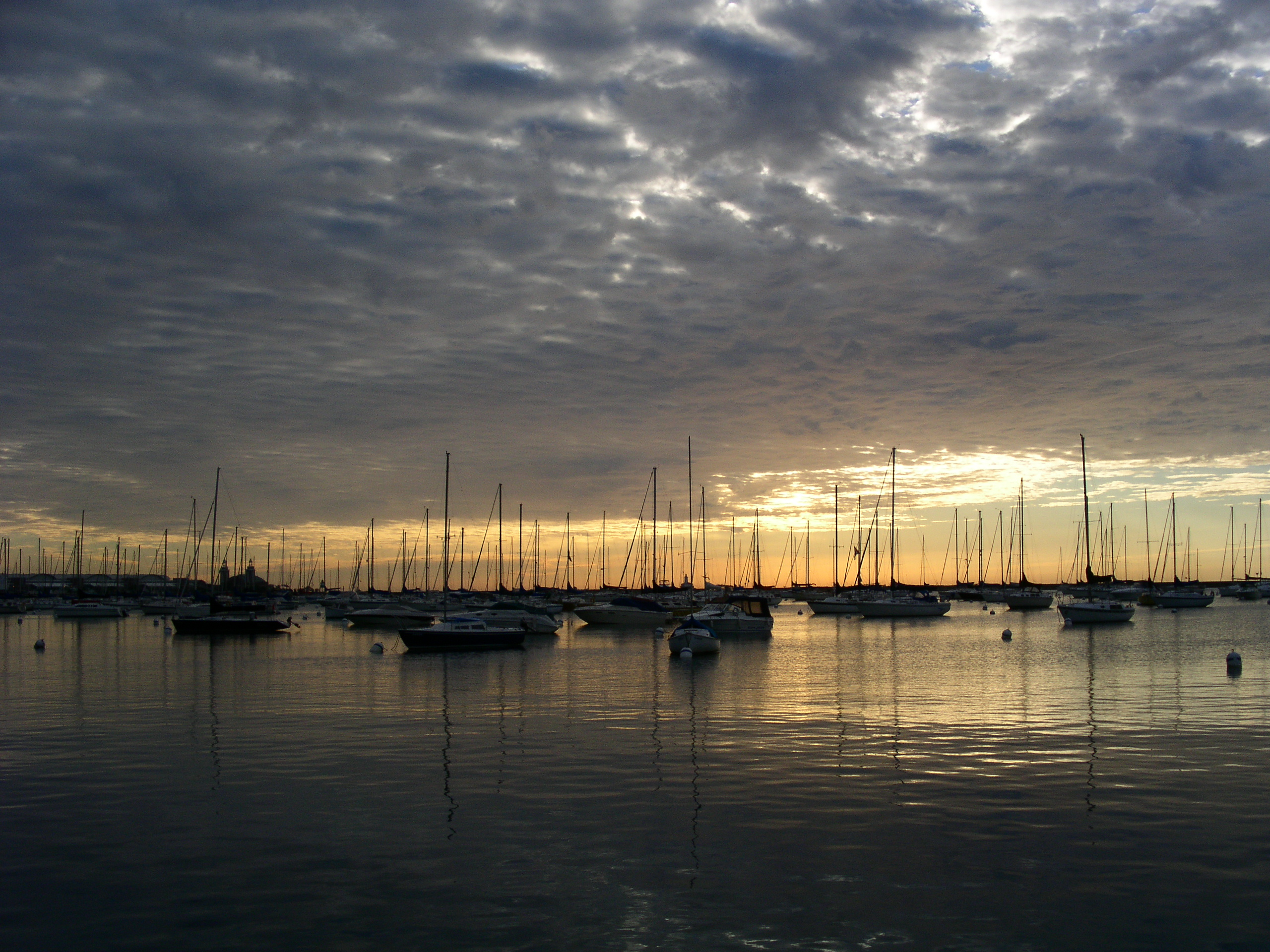 Photograph of boats from the Chicago shoreline at dawn in Monroe Harbor.